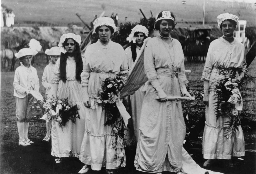 Creator: Unidentified Location: Atherton, Queensland Description: The inaugural Atherton District Queen Carnival 1919. The 'Queen' is Irene Williams from Yungaburra. (Description supplied with photograph) Atherton was named after John Atherton the pioneer pastoralist who brought cattle into the district from Rockhampton in 1877. He took up Emerald End Station on the banks of the Barron River. Settlement in Atherton began with the development of a cedar logging camp known as Prior's Pocket. Atherton is the agricultural hub of the Atherton Tableland. Chinese market gardeners dominated the scene until the early 1900's. After the First World War, land was cleared for soldier settlement. The fertile volcanic soil is ideal for dairying and grazing and also produces peanuts, potatoes, avocados, maize and other grains. Lake Eacham and Lake Barrine are the larger crater lakes in the district. From Atherton via the Herberton Range, it is about 16 km to the historic tin-mining town of Herberton. (Information taken from Explore Australia, Penguin, 2002 and The Australian Encyclopedia, 1964) View this image at the State Library of Queensland: Information about State Library of Queensland’s collection